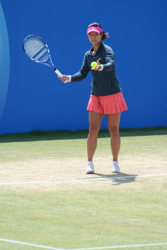 Li Na at Birmingham 2009